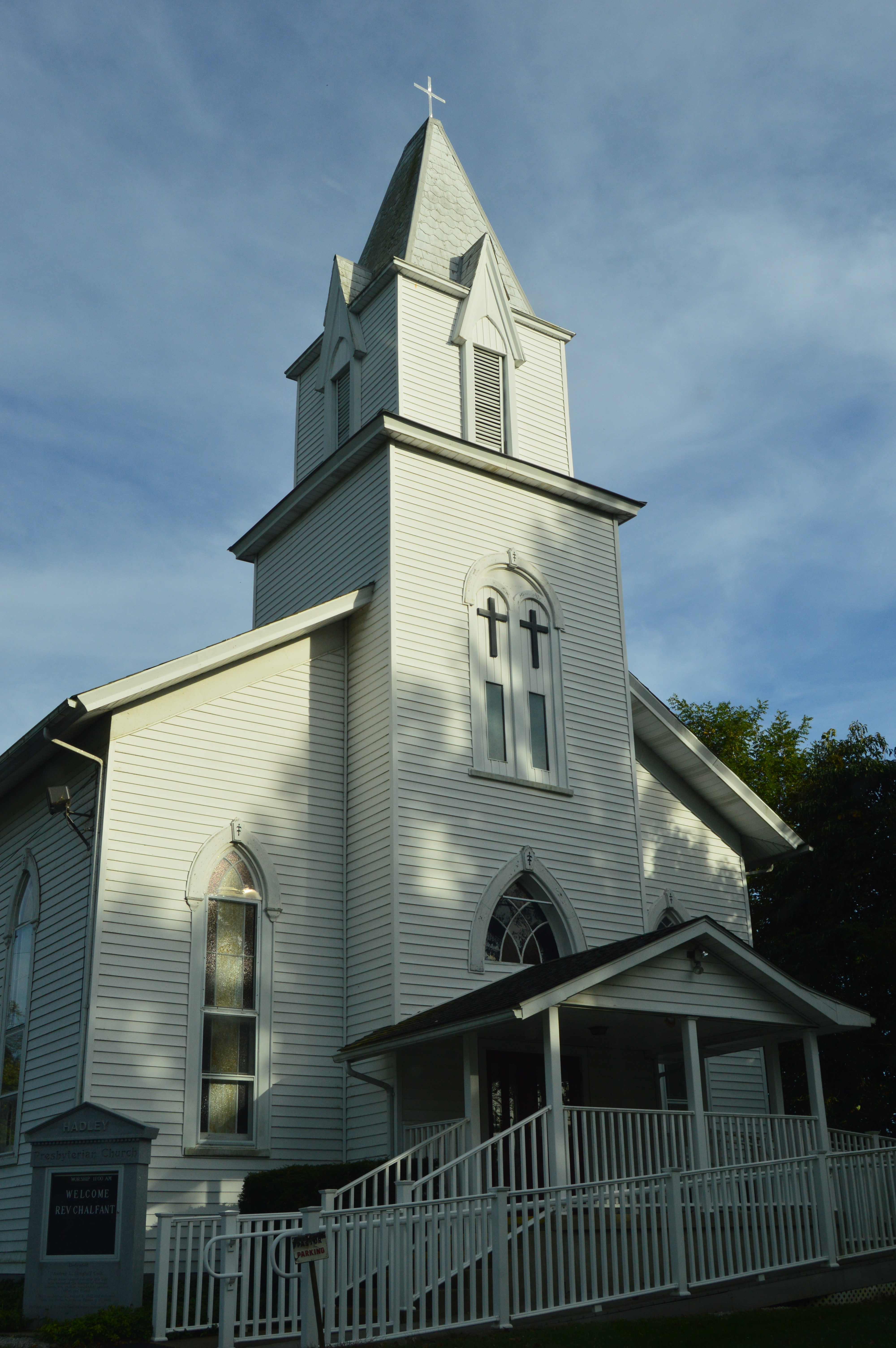 Front of Hadley Presbyterian Church, located at the end of Church Street at Hadley in northwestern Perry Township, Mercer County, Pennsylvania, United States.